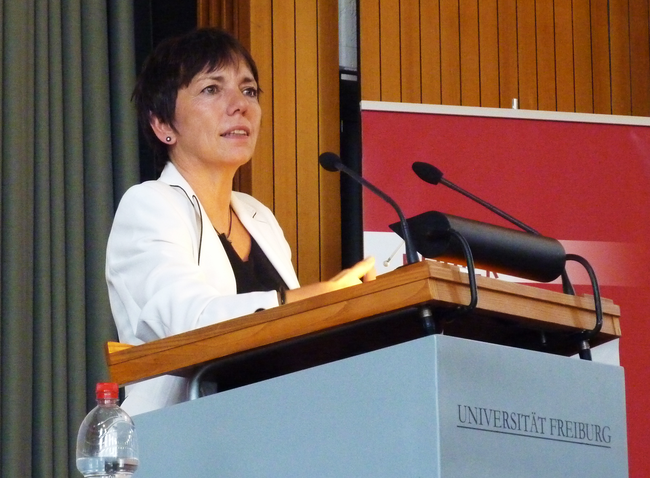 Margot Kässmann responding to a question from the audience following her lecture on "Multicultural Society - Roots, Resistance, and Visions" at the University of Freiburg.